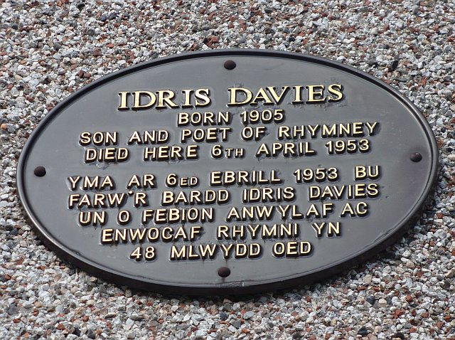 Plaque, Victoria Road For a biography of Idris Davies see this . His poem The Bells of Rhymney was adapted into a folk song by Pete Seeger.